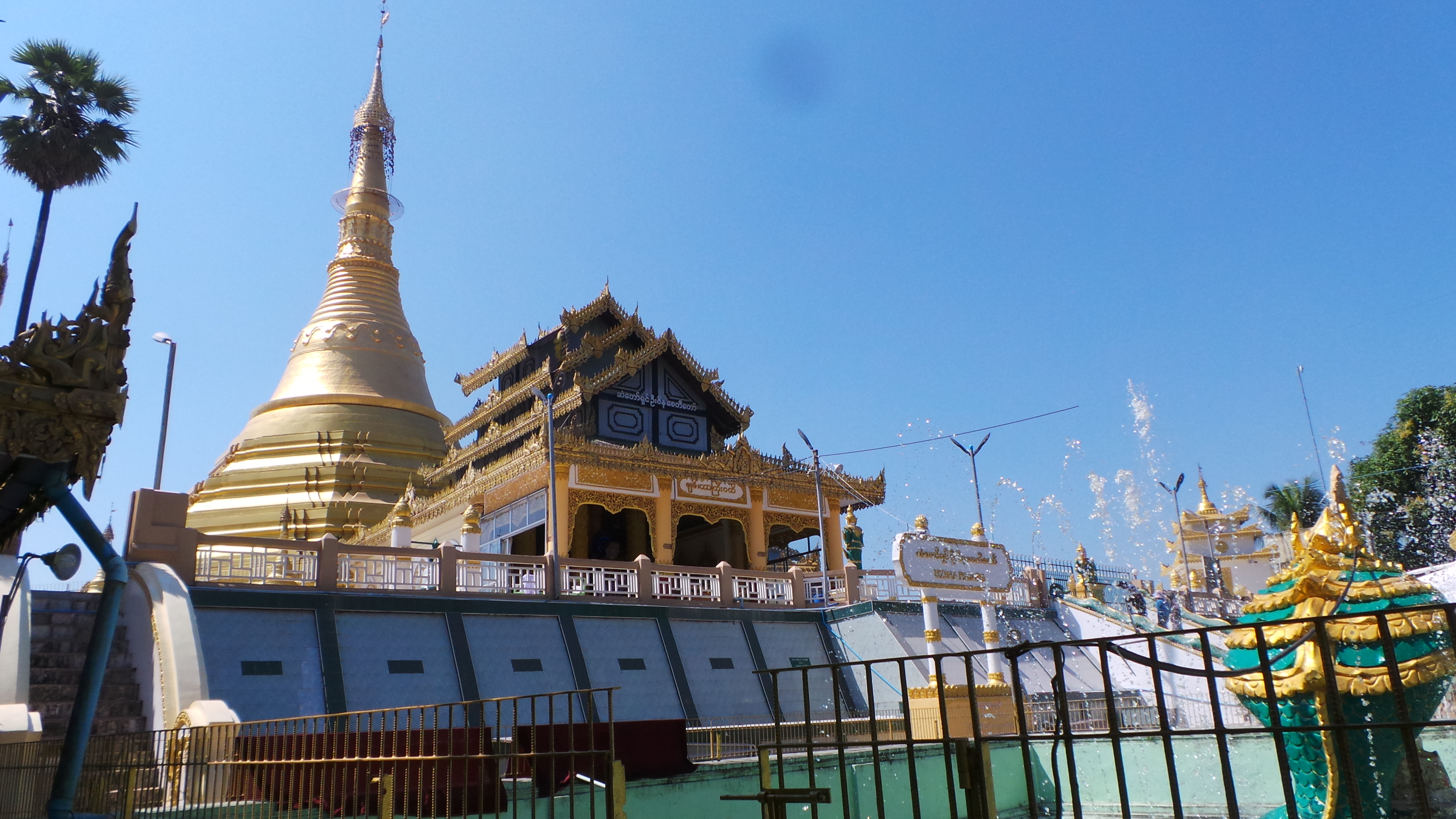 U Zi Na Pagoda, Mawlamyine, Mon State မြန်မာဘာသာ: ဦးဇိနစေတီတော်၊ မော်လမြိုင်၊ မွန်ပြည်နယ်